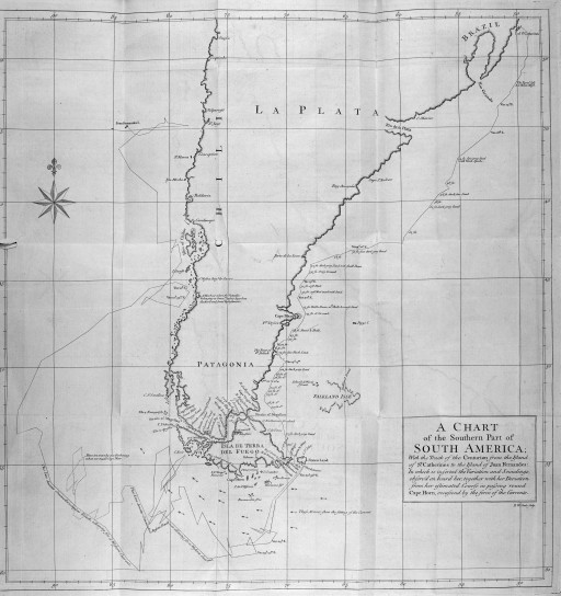 [Illustrations de A Voyage round the world in the years MDCCXL, I, II, II, IV. By George Anson. Compiled... by Richard Walter] / J. Mason, grav. ; Richard Walter, aut. du texte Éditeur : J. and P. Knapton (london) 1748